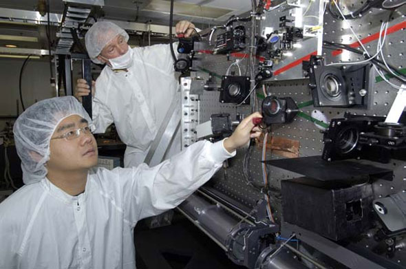 Engineers at JPL examine components on an optical bench that simulates the precision performance of NASA's future SIM PlanetQuest mission, which will search for Earthlike planets around nearby stars.